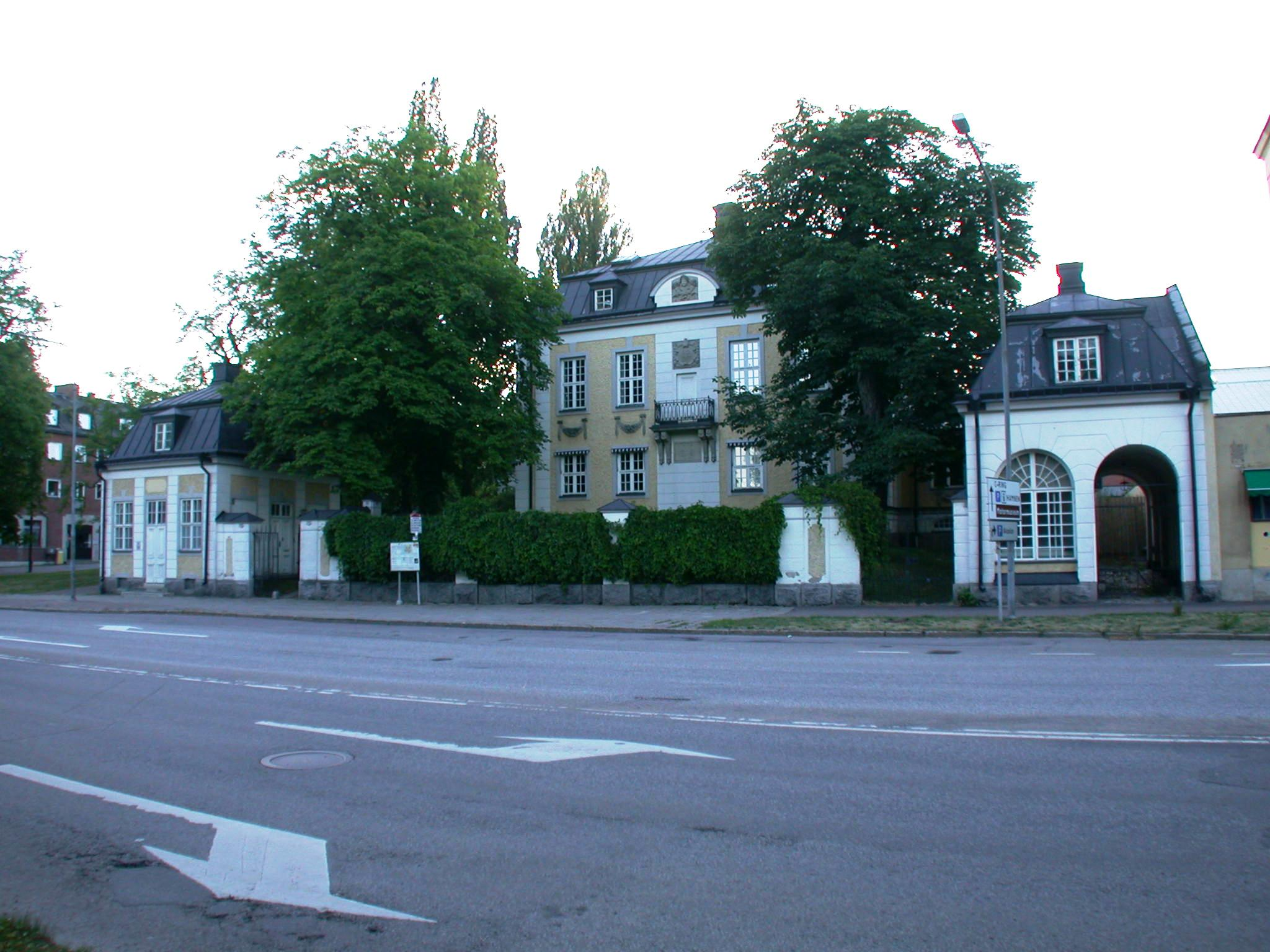 The old town hall, Motala, Sweden. Photo by (WT-shared) Riggwelter, July 13, 2006. Was in category Motala on wikivoyage Was in category Town halls in Sweden on wikivoyage